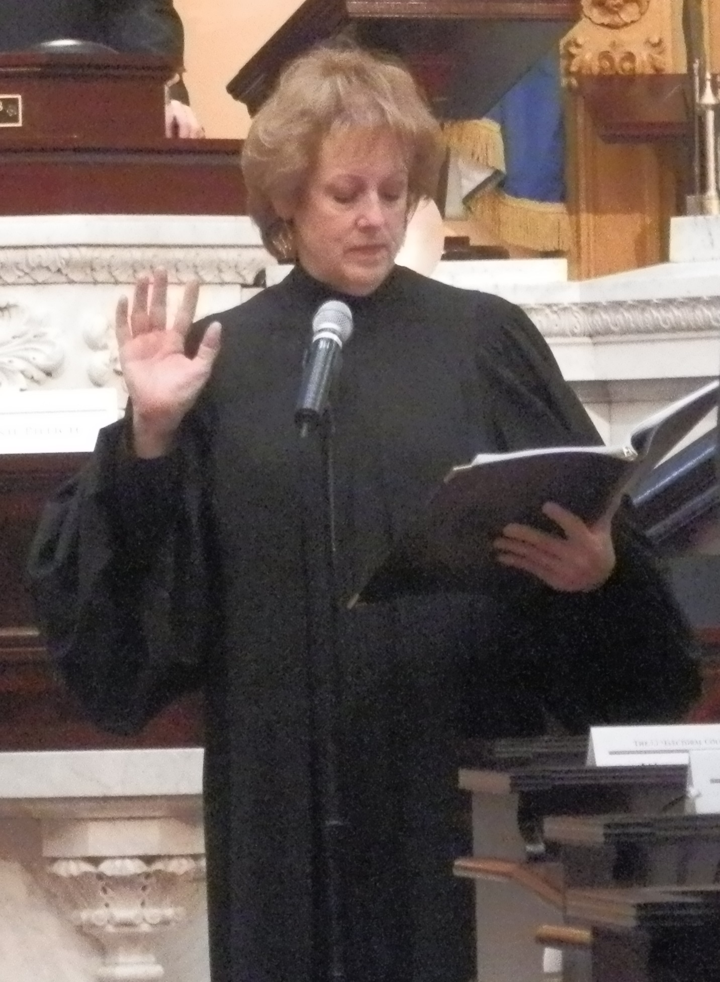 Maureen O'Connor as Chief Justice of the Ohio Supreme Court was at a meeting of the Electoral College in 2012 in the Ohio Statehouse. She is cropped from a photo of that occasion.